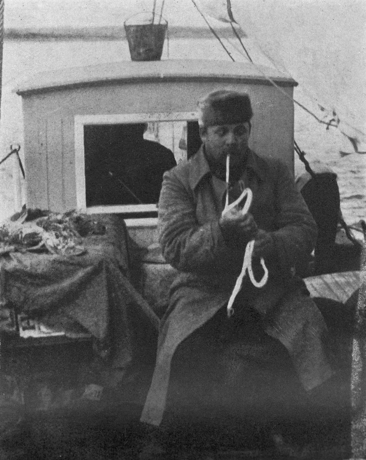 The captain of the Omul eating the raw spinal cord of the sturgeon